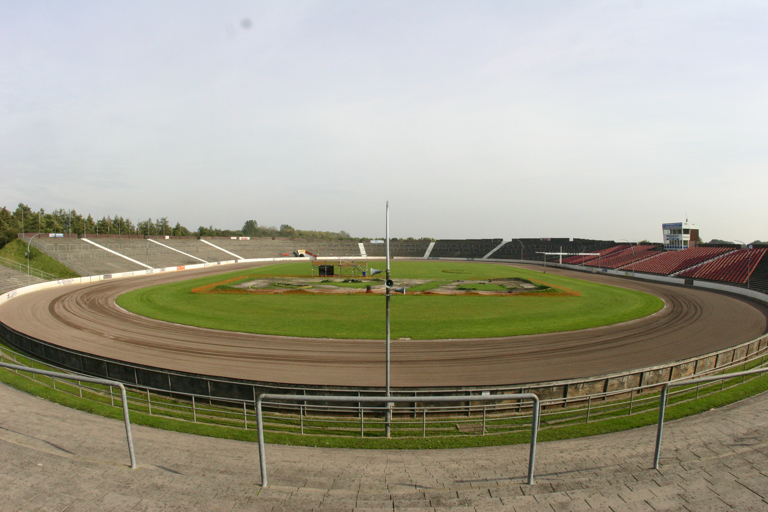 Motodrom in Halbemond near Norden, East Frisia, Germany